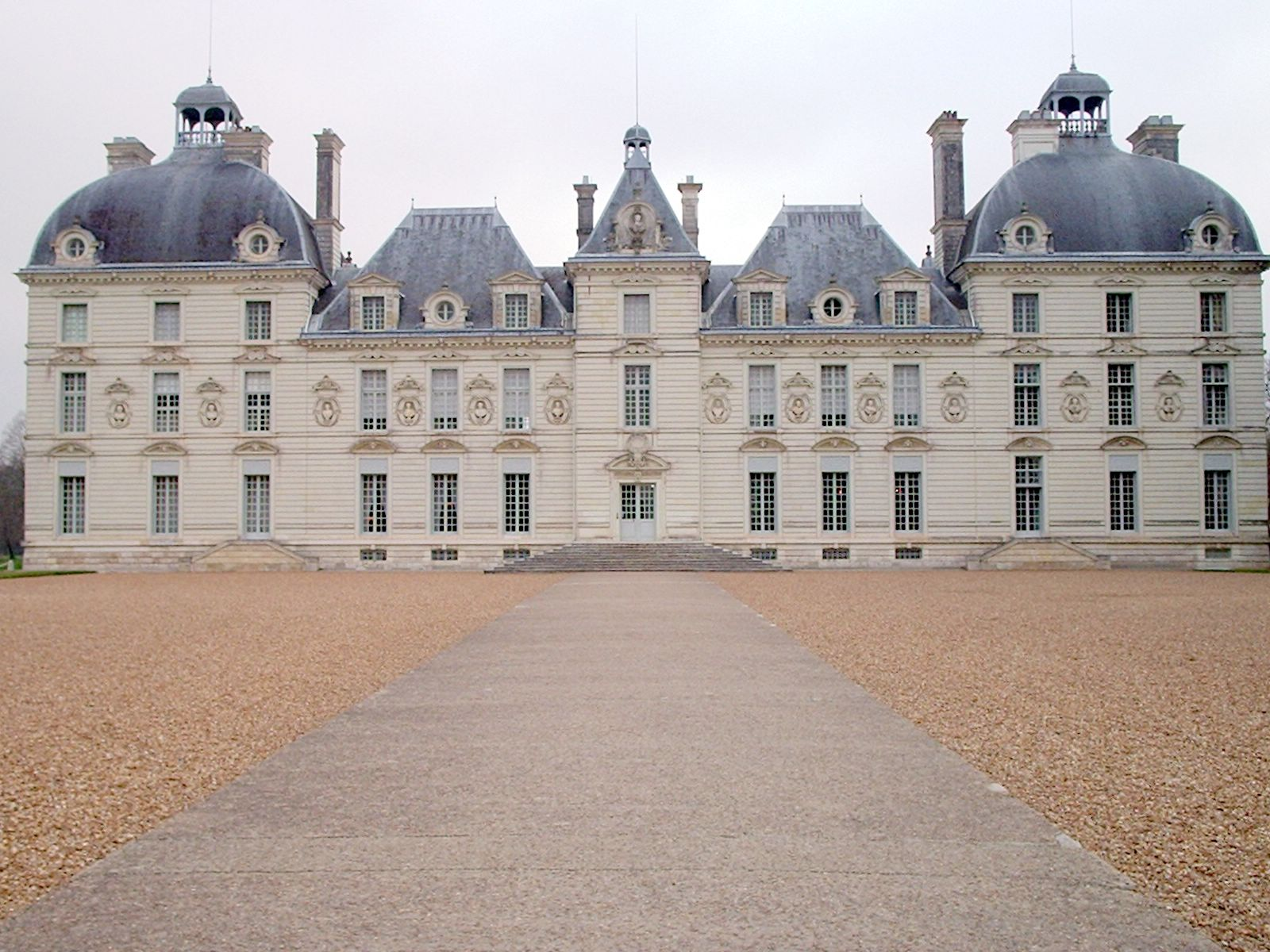 The Castle of Cheverny.